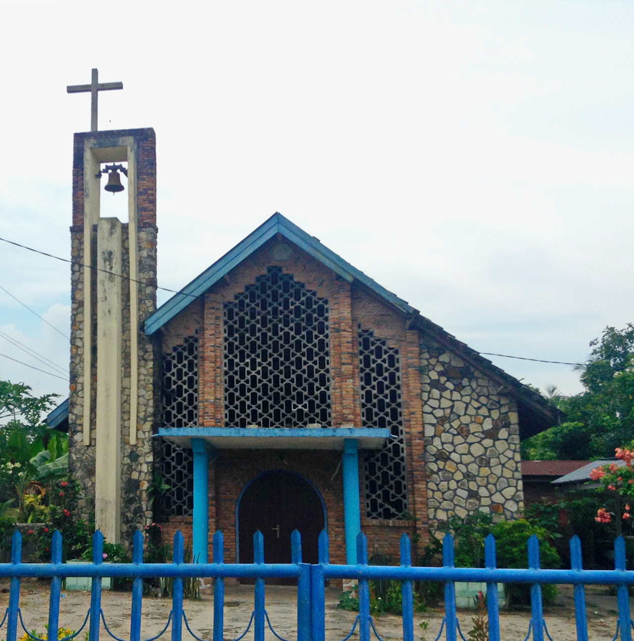 St. Bartolomeus Catholic Church